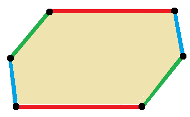 Hexagonal parallelogon example